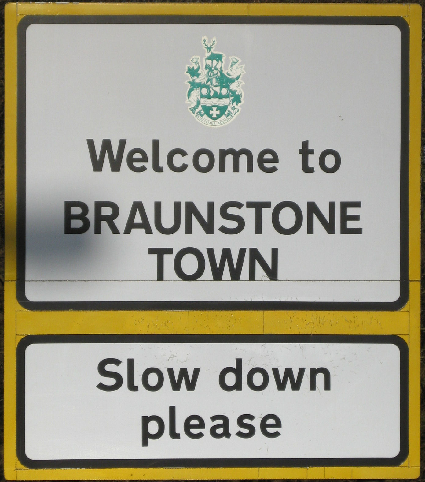 Welcome to Braunstone Town sign